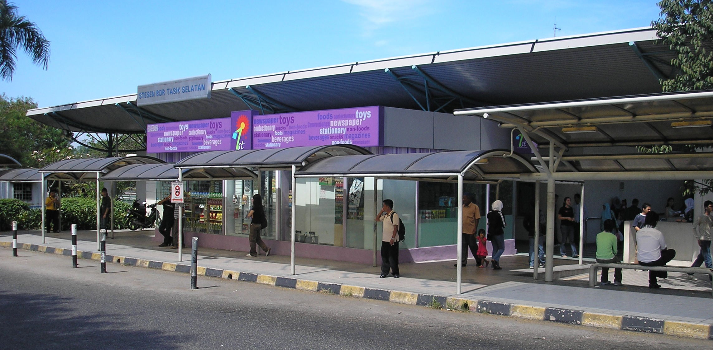 The Bandar Tasik Selatan station (eastern entrance), Klang Valley, Malaysia.